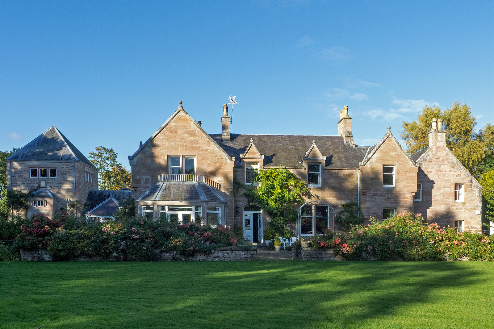 Tarradale House from the front lawn